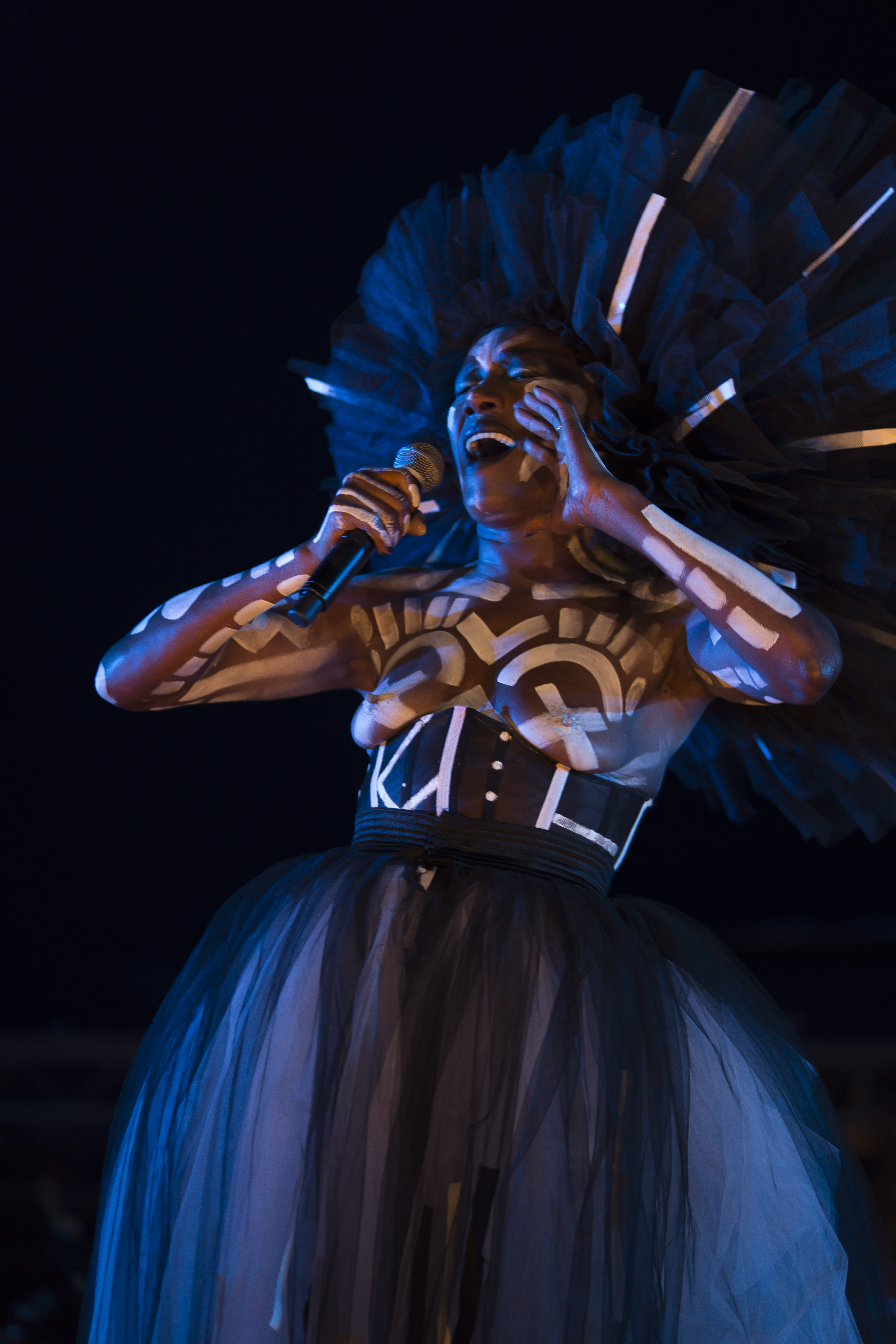 Grace Jones - Carriageworks (Vivid) - 1st June 2015